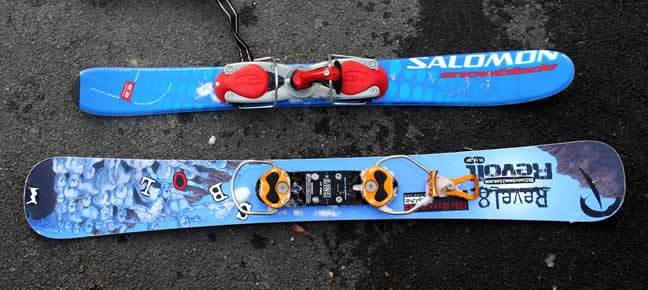 Skiboard vs a snowblade